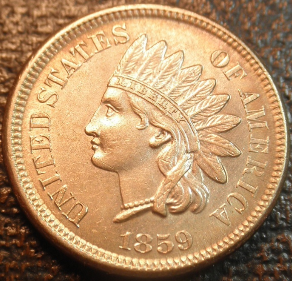 Obverse of 1859 Indian Head cent